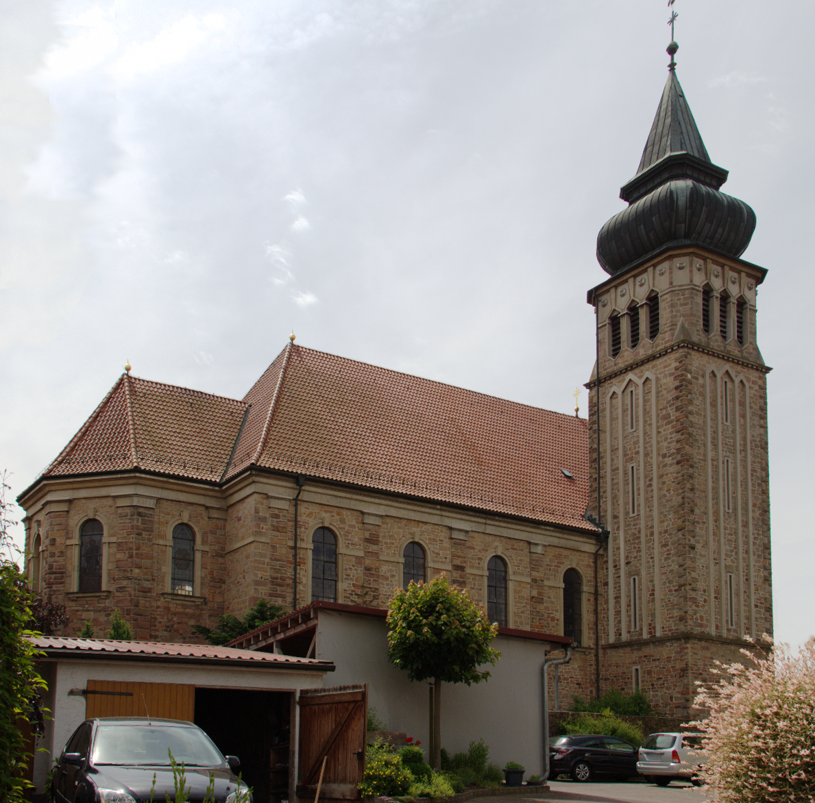 Roman Catholic Church in Hainzell, Hosenfeld, Hesse, Germany